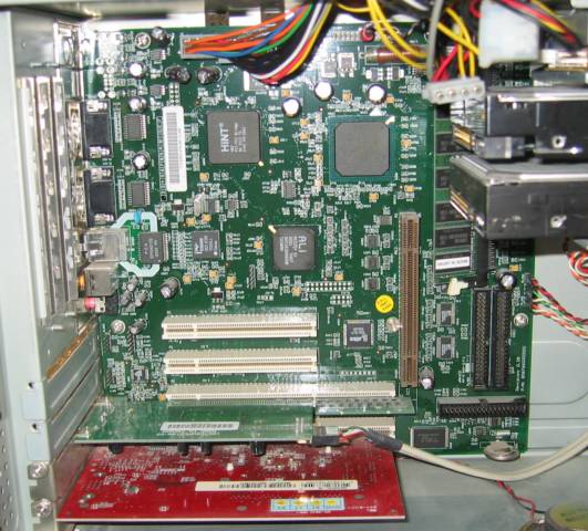 Iyonix motherboard.On the top left side are the I/O ports. The large unmarked square chip is the Intel XScale 80321 CPU. The 512MB RAM SIMM is on the right side part hidden by the disc drives. The brown connector is for the 2 slot podule backplane (not fitted). To is right are the 2x IDE connectors and the floppy disc connector below them. On the left are the white PCI slots, The graphics card is in the bottom and the USB is in the top 64-bit slot. The UDMA card is in the back of the USB card slot.Here is a HiRes picture of the Castle Iyonix motherboard . Specification:Notes 1. Neither SICK v1.22 nor ARMSi will run on the Iyonix